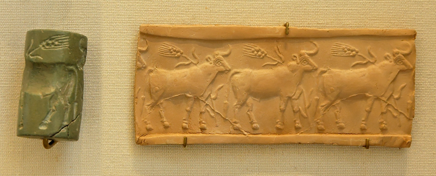 Cylinder seal and impression: cattle herd in a wheat field.